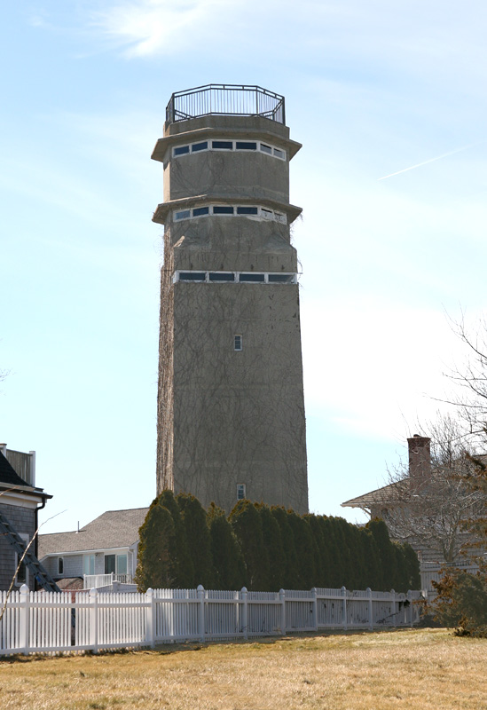 This 7-story fire control tower, photographed in 2009 (looking WSW), is located on Pt. Allerton, in Hull, MA. It is the highest in the Boston Harbor Defense fire control system. It survives in the back yard of a private residence, in almost mint condition, visible throughout Hull, and looking out over miles and miles of coastline and ocean. A detailed description of the tower is contained here. The top three stories of the tower were used for observation. Each story held a base end station, and each mounted a DPF (Depression Position Finder), as well as a spotting scope. The top level DPF, at 179 feet, controlled fire for Battery Murphy, the 16-inch guns in Nahant. Next came the 6th story, at 171 feet, which controlled Battery Jewell, the 6-inch guns a short distance to the north, on Outer Brewster Island. Then came the fifth story, at 163 feet, which controlled fire for Battery 207, the 6-inch guns across the harbor entrance at Ft. Dawes. A concrete crow's nest "basket" was located just below the roof level, with a trapdoor that opened up and provided space for an observer of the Ant-Aircraft Intelligence Service (AAIS) who stood watches spotting for intruding aircraft. The railing around the edge of the roof was added (for the safety of visitors) by the present (2010) owner, who also installed a new staircase to the roof through the former AAIS crow's nest.